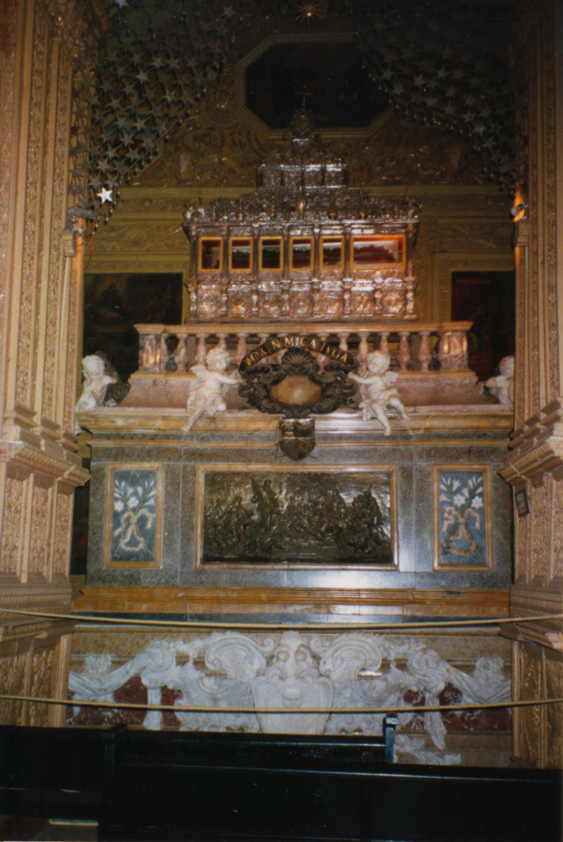 Body of Saint Francis Xavier in a silver casket of Basilica of Bom Jésus in Goa.